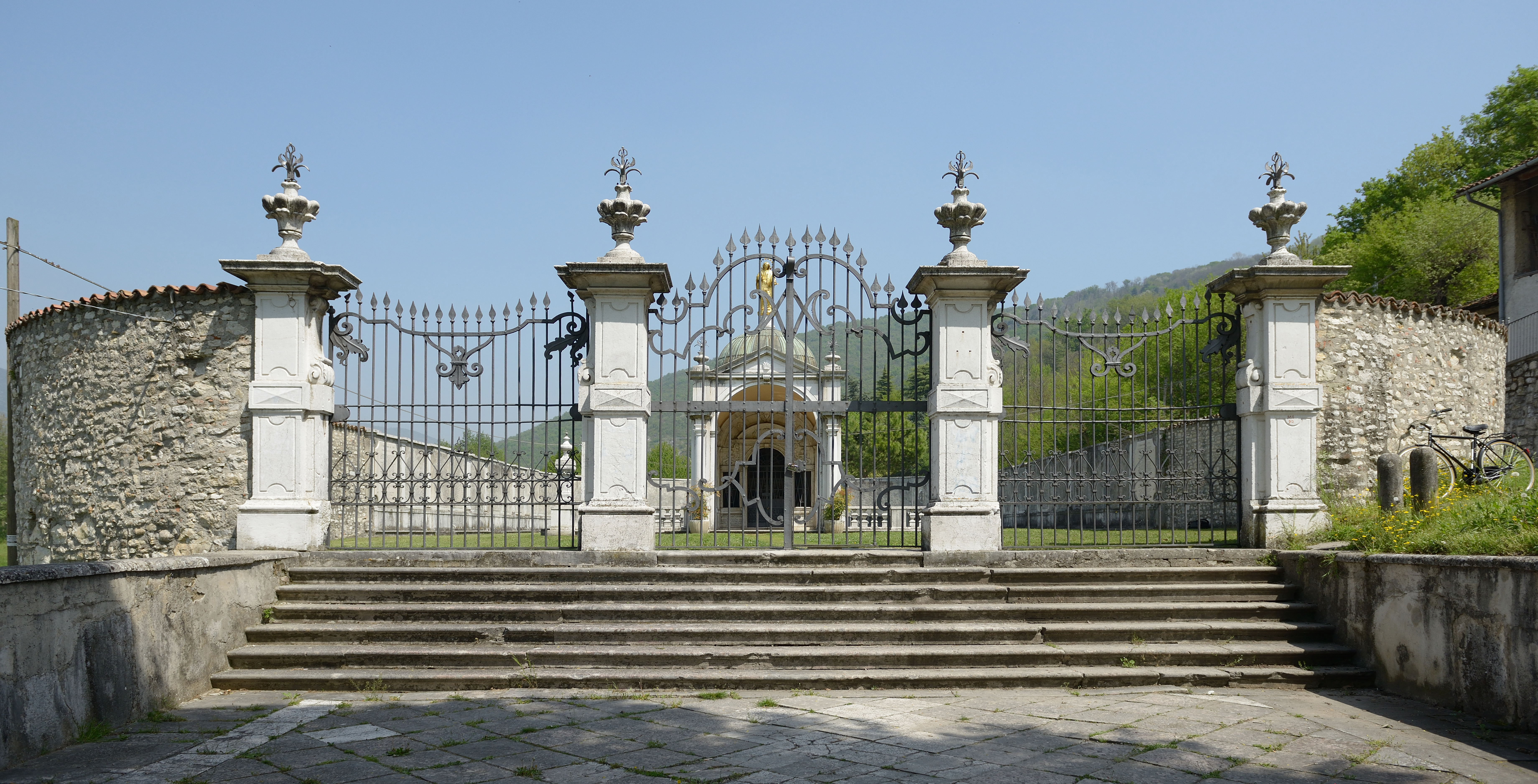 Wrought iron gate at the sanctuary of Our Lady of Valverde in Rezzato.